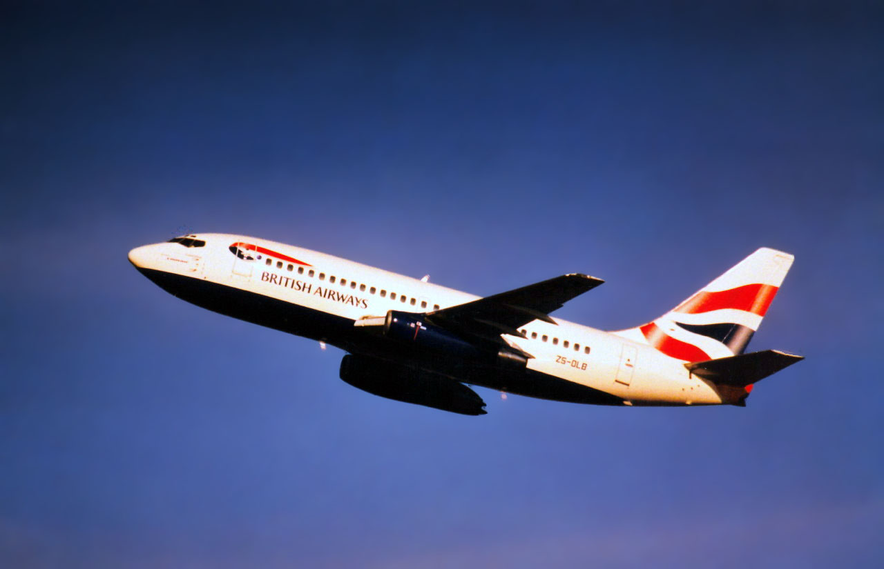 Crashed near Islamabad 20th April 2012 registered AP-BKC